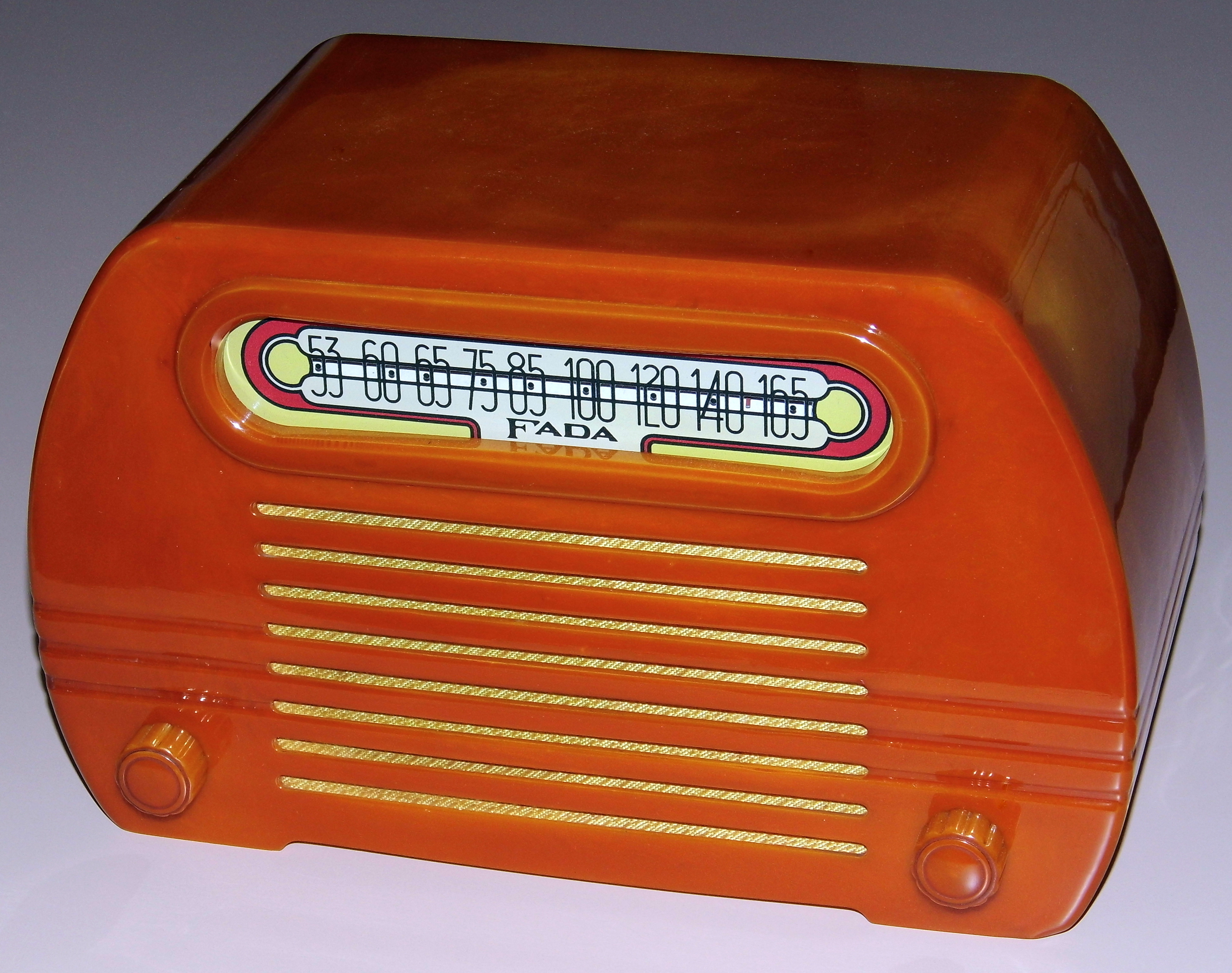 The radio is in excellent condition and has been electronically restored to its original operating condition.